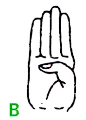 Buchstabe B im deutschen Fingeralphabet, gemäß einer Infokarte der Deutschen Gehörlosenhilfe Bayern e.V